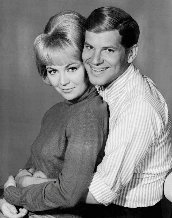 Photo of Dick Kallman as Hank Dearborn and Linda Foster as Doris Royal from the television program Hank.